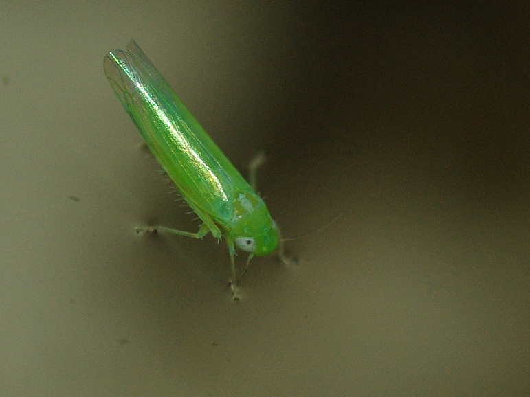 Cicadellidae Empoasca